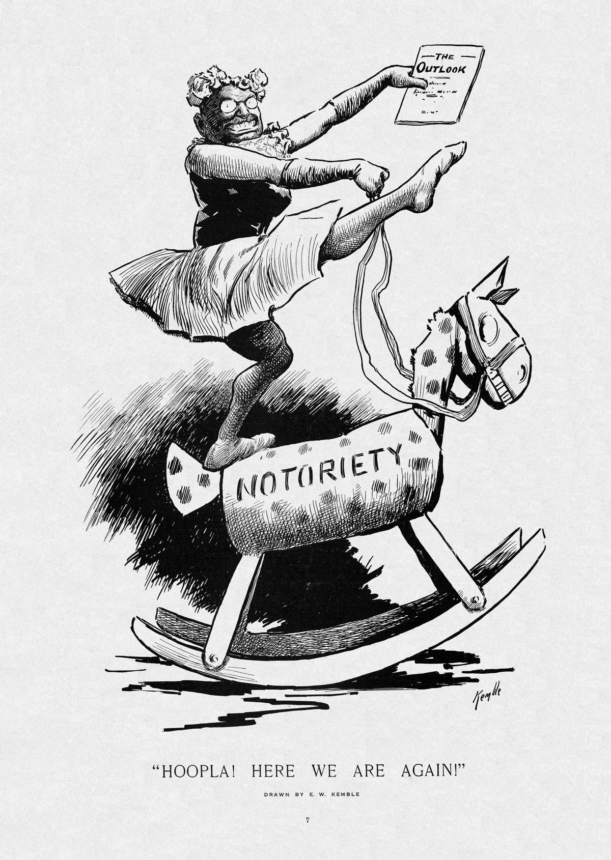 In anticipation of Theodore Roosevelt entering the race for the 1912 Republican presidential nomination, this Harper’s Weekly cartoon lampoons his desire for the spotlight. His eldest daughter, Alice, is usually attributed with the observation, “My father always wanted to be the corpse at every funeral, the bride at every wedding, and the baby at every christening.” Here, the grinning former president holds Outlook magazine, for which he contributed articles advocating his political ideas. Dressed as a ballerina, he balances atop the rocking horse of “Notoriety.” The hobbyhorse (in this case, rocking horse) symbolized a preoccupation or obsession.